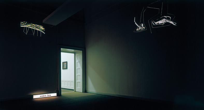 Exhibition "Oktogon II". Exhibition view at the projections "other places" by Nikolaus A. Nessler, Museum Wiesbaden, 1990